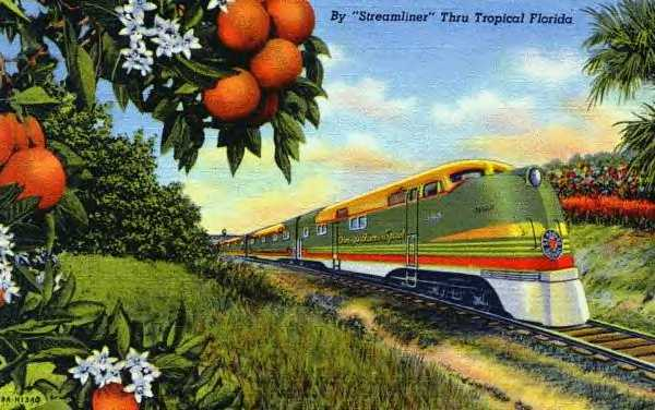 Postcard image of Seaboard Air Line Railroad train